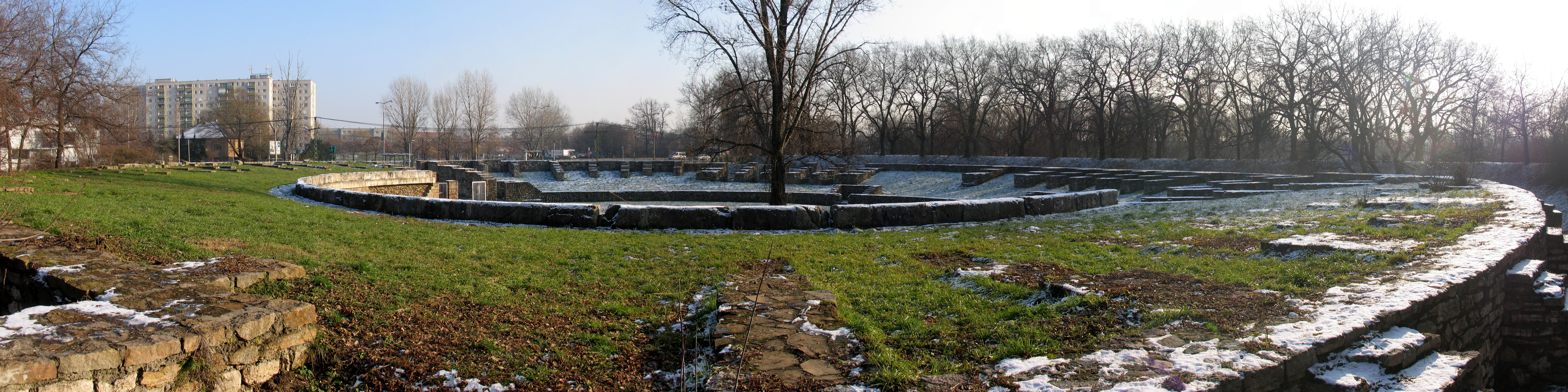 Ruins of the amphitheater of the roman city Aquincum (today inside Budapest)